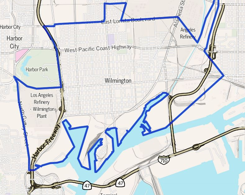 Map of the Wilmington district of Los Angeles. Located adjacent to the Port of Los Angeles. As outlined by the Los Angeles Times.